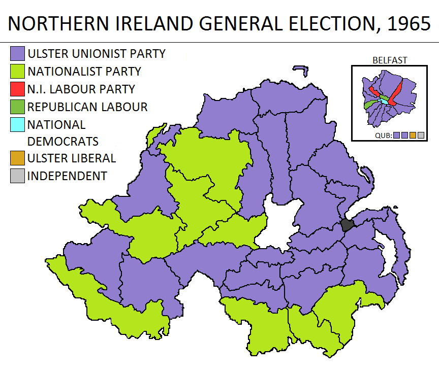 Map showing the result of the 1965 Northern Ireland general election.